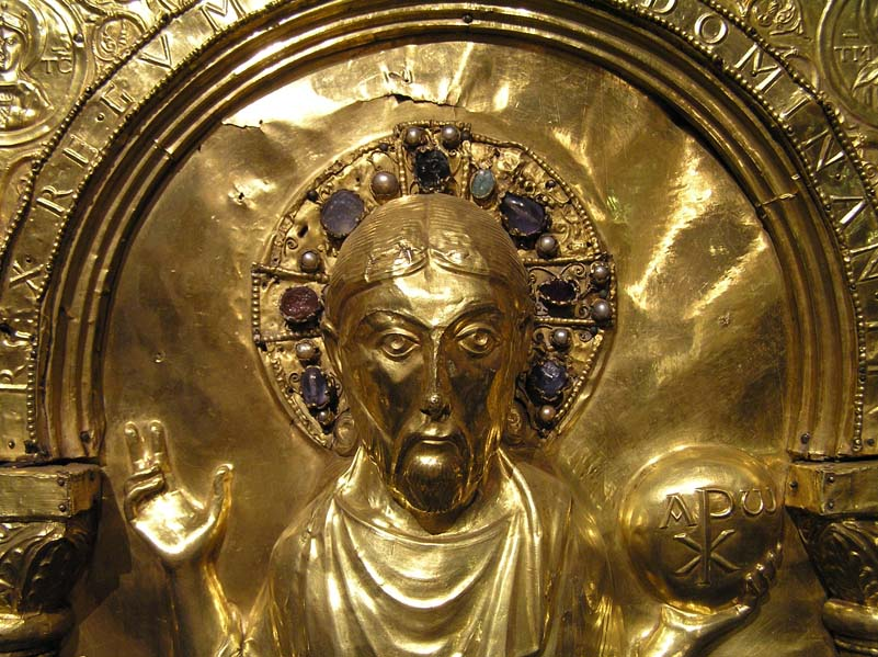 Detail (christ) from the Basel Antependium (before 1024, wood covered with gold, precious stones and pearls)), hôtel de Cluny Paris musée national du Moyen age